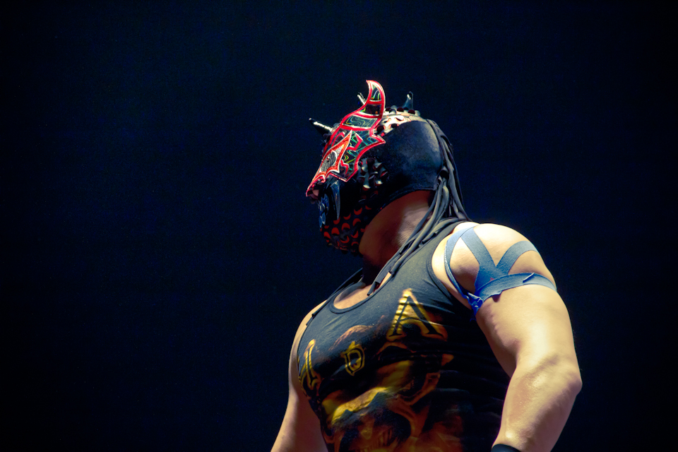 A picture of the Mexican wrestler Mephisto taken during a match